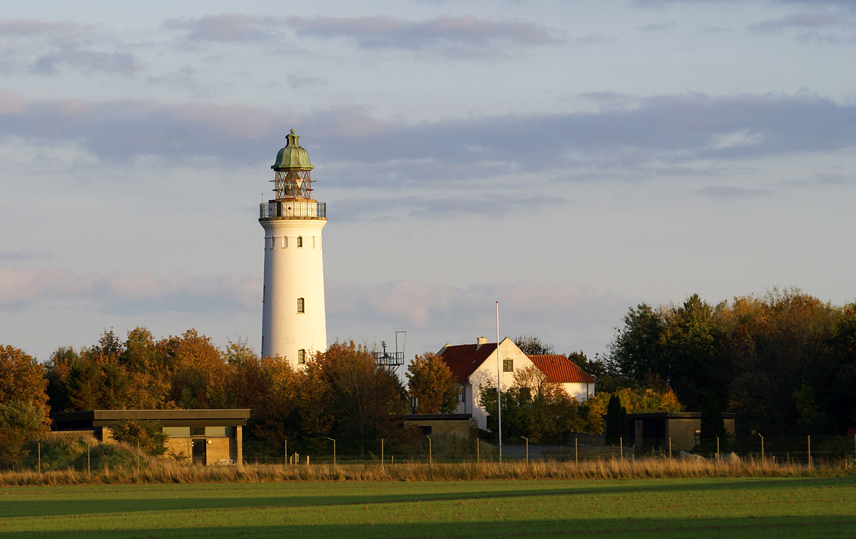 Stevns Lighthouse, Stevns Kommune, Denmark